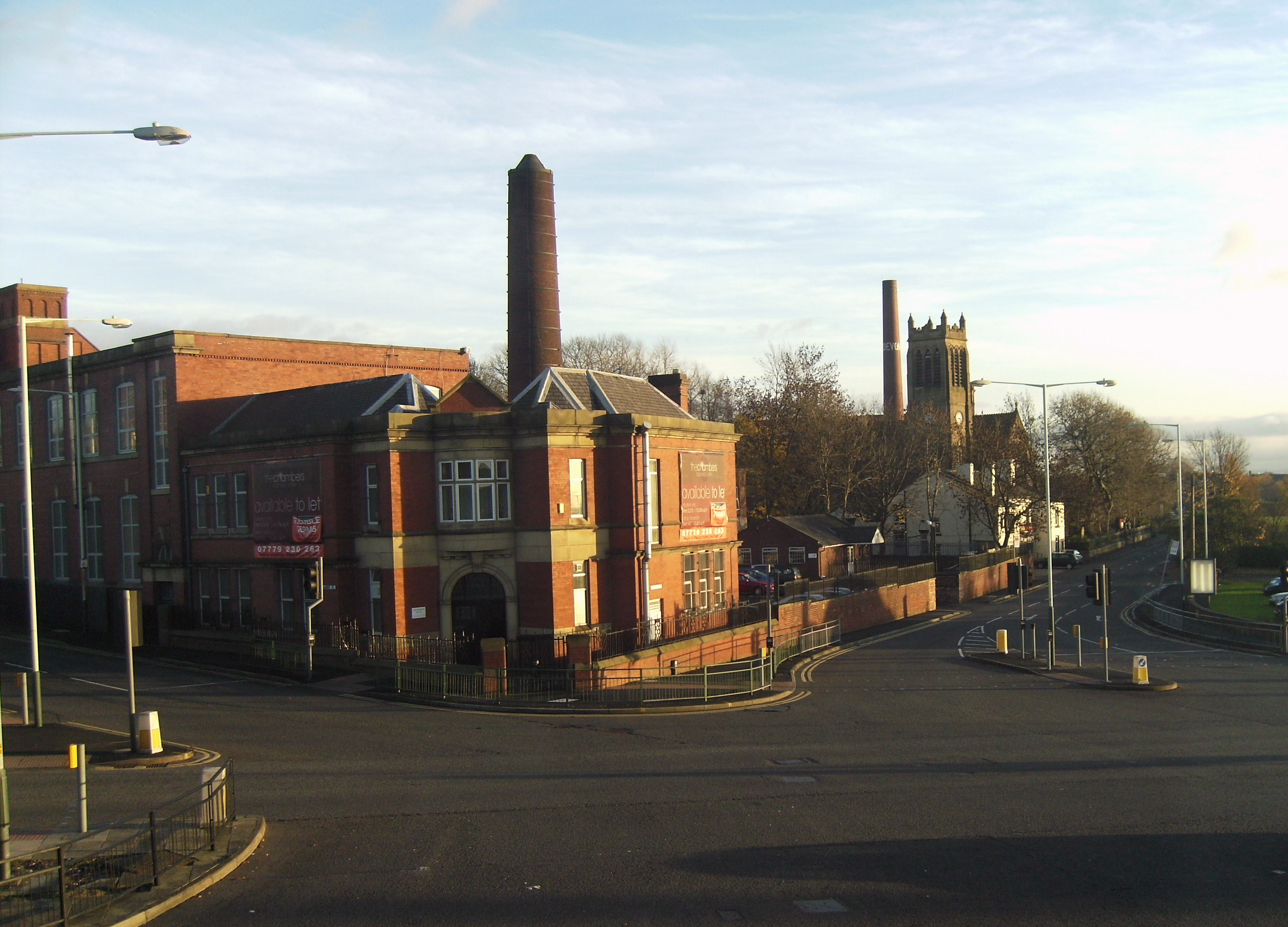 A view of the Manchester Road/Chamber Road/Chapel Road junction, in the Hollinwood area of Oldham, in Greater Manchester, England. In the background is Saint Margaret's Church, Hollinwood's Anglican parish church.